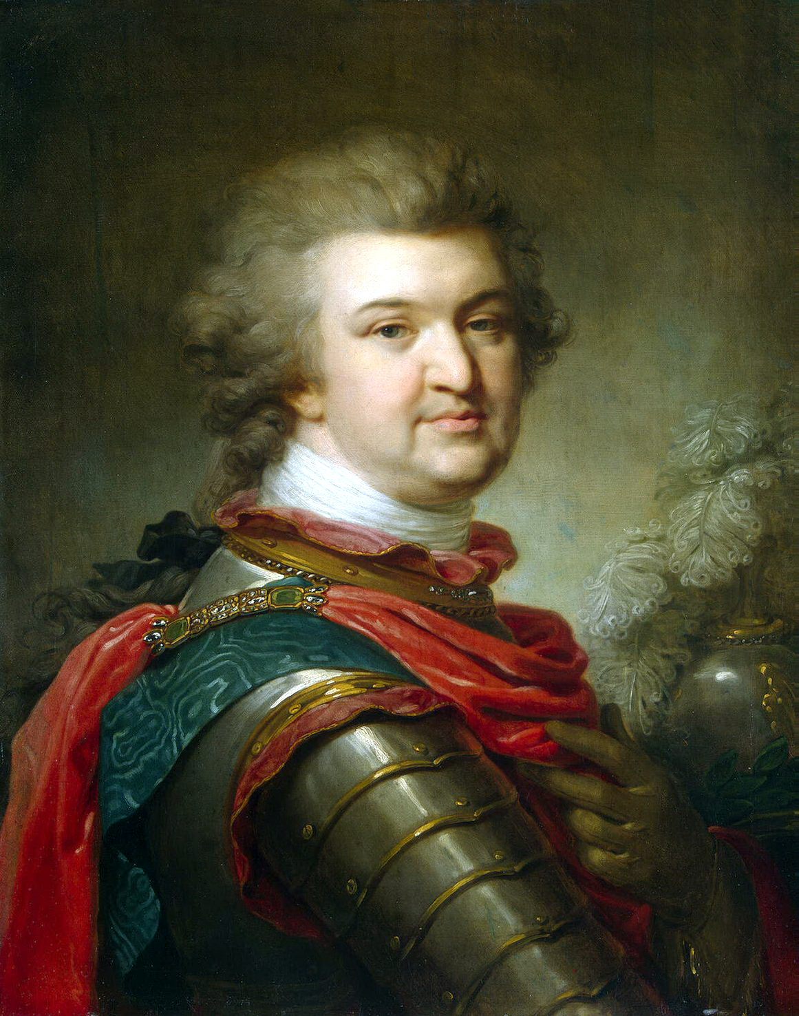 Portrait of Russian statesman Prince G. A. Potyomkin-Tavrichesky